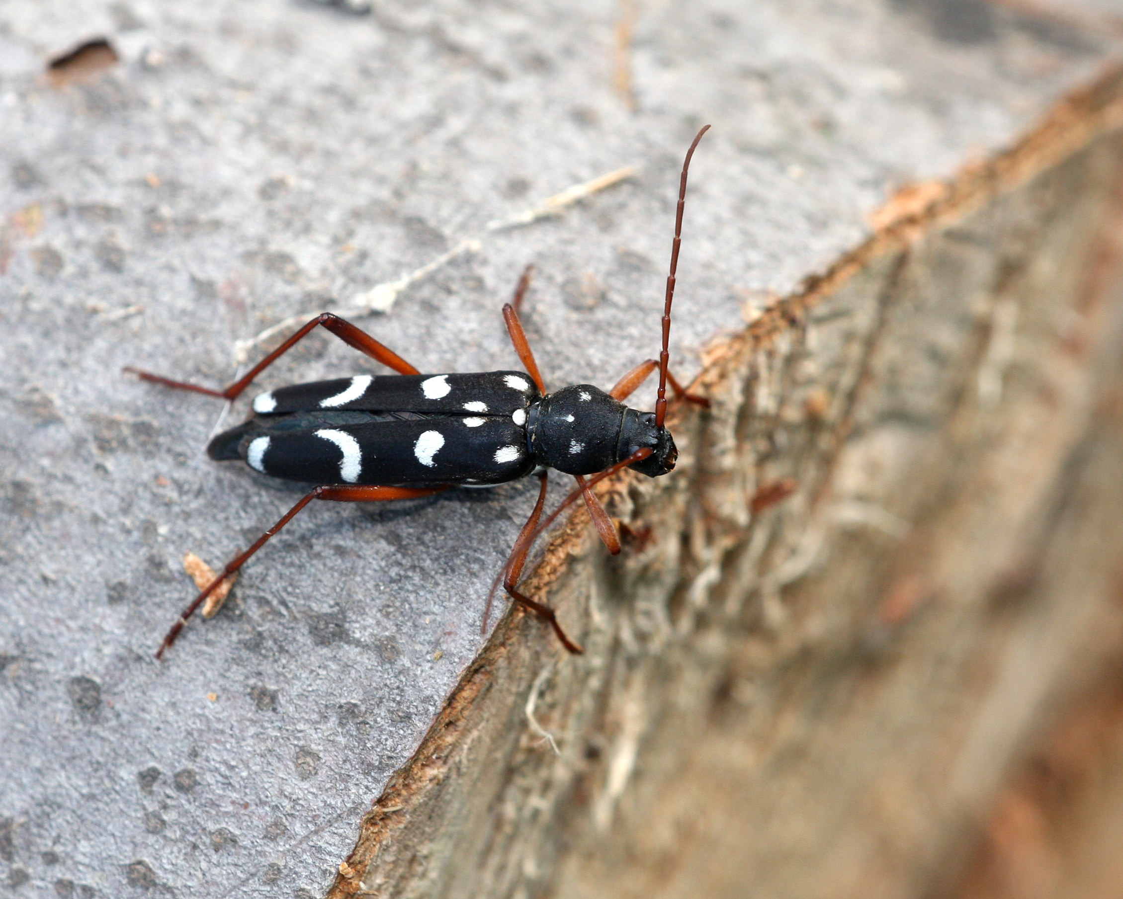 The longhorn beetle Isotomus speciosus, photographed on Mt. Boč, Slovenia. Second modern record for the country (det. by Al Vrezec), found during field monitoring of protected beetles. Precise locality not given due to conservation concerns.